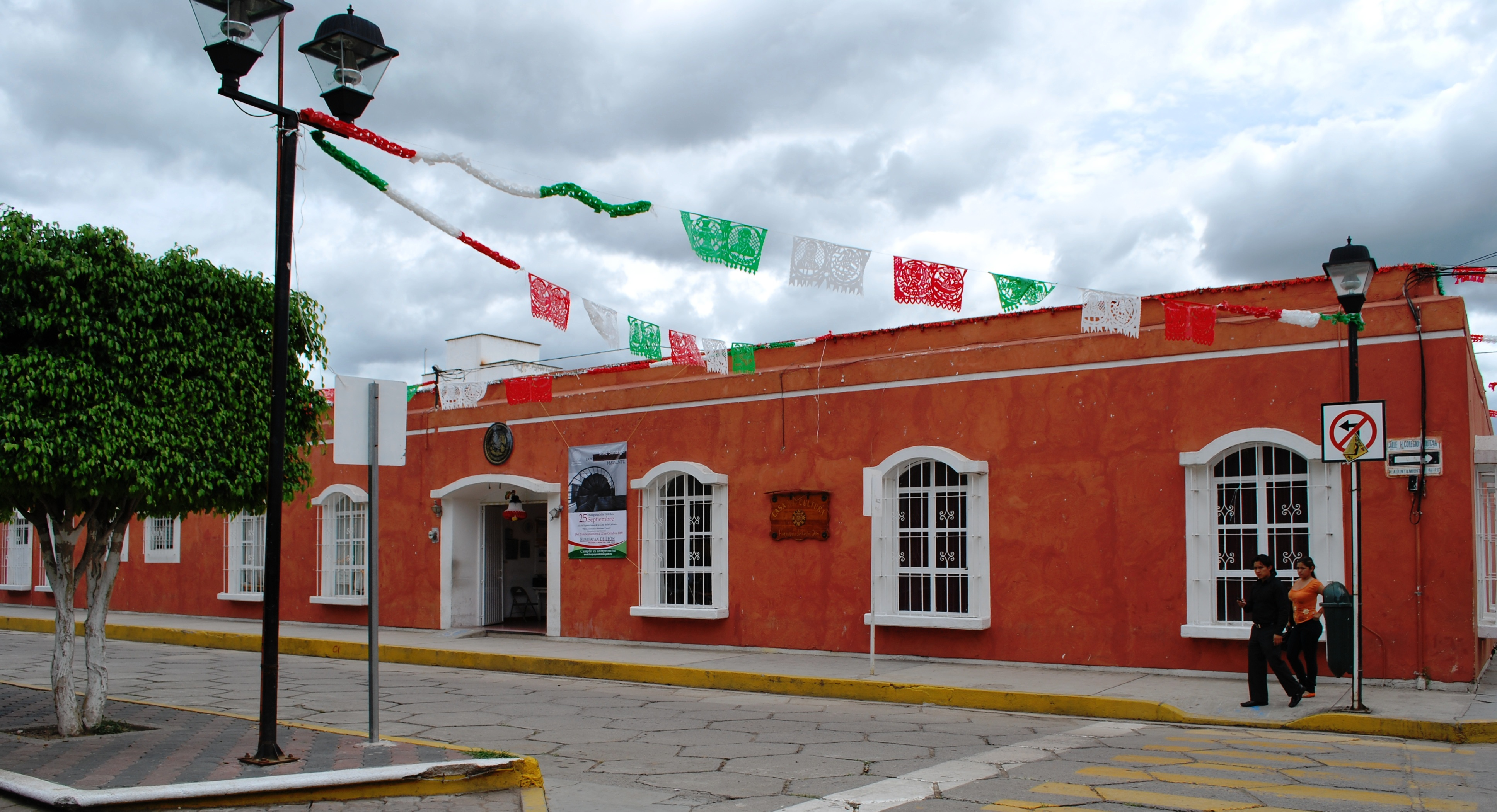 Casa de Cultura of Huajuapan de León, Oaxaca